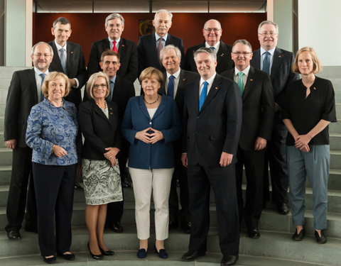 Members and co-chairs of the Australia-Germany Advisory Group, including Mathias Cormann (front row, 4th from left) with Angela Merkel (front row, 3rd from left) in July 2015